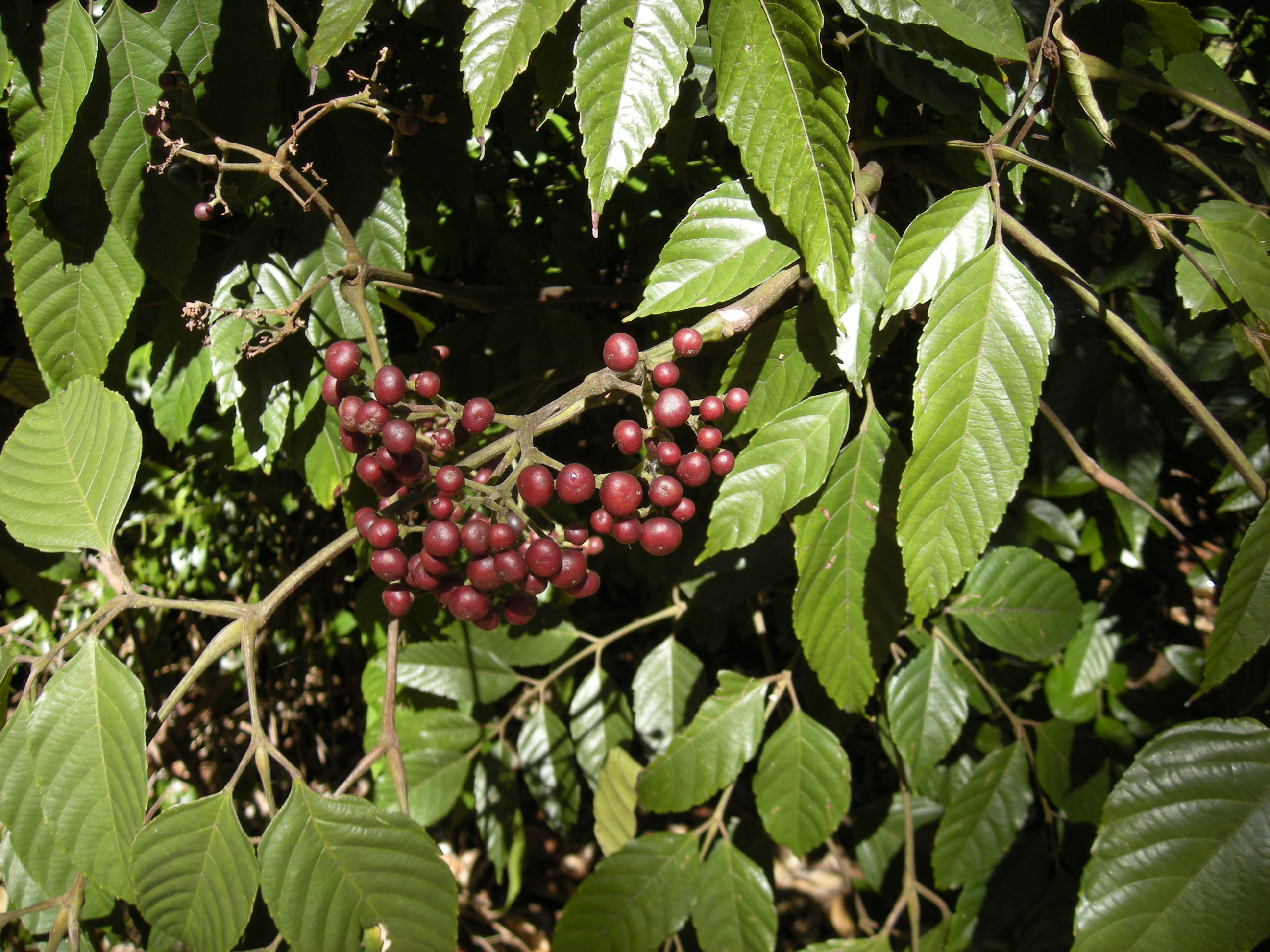 Leea indica fruit and foliage